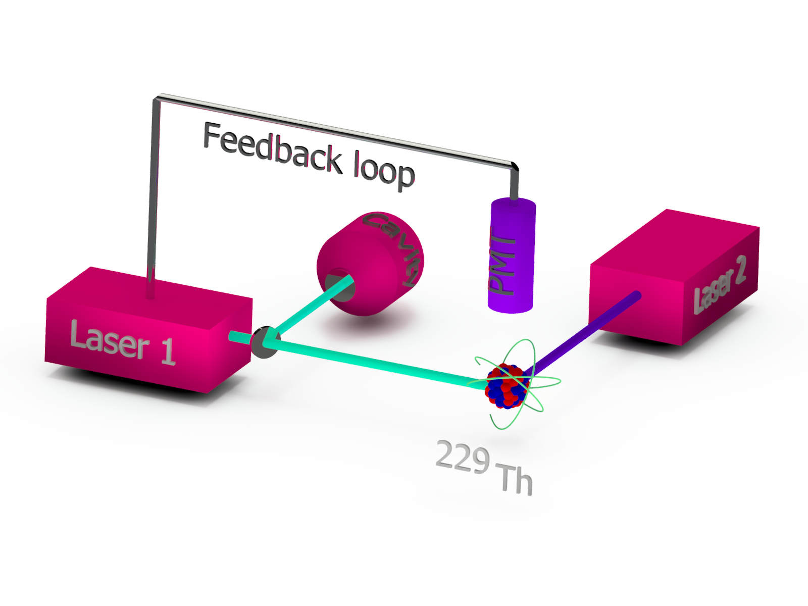 A Thorium-229 nucleus is irradiated with stabilized laser light (Laser 1). A second Laser (Laser 2) is used to probe the atomic shell's hyperfinestructure in order to determine via the change of the nuclear spin state if the nucleus was successfully excited. A photomultiplier tube (PMT) is used to probe if Laser 2 is on resonance. Based on the PMT signal Laser 1 is actively stabilized to the nuclear transition via a feedbackloop. In this way the frequency of Laser 1 will exactly match the frequency of the nuclear excitation. The frequency of Laser 1 can be accurately measured with the help of a frequency comb and therefore used as a time and frequency standard.